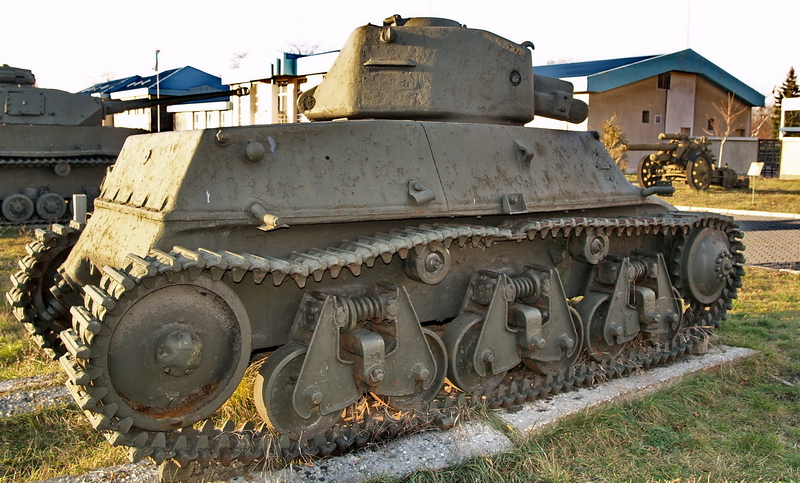 French WW2 tank Hotchkiss H-39, National Museum of Military History, Sofia, Bulgaria